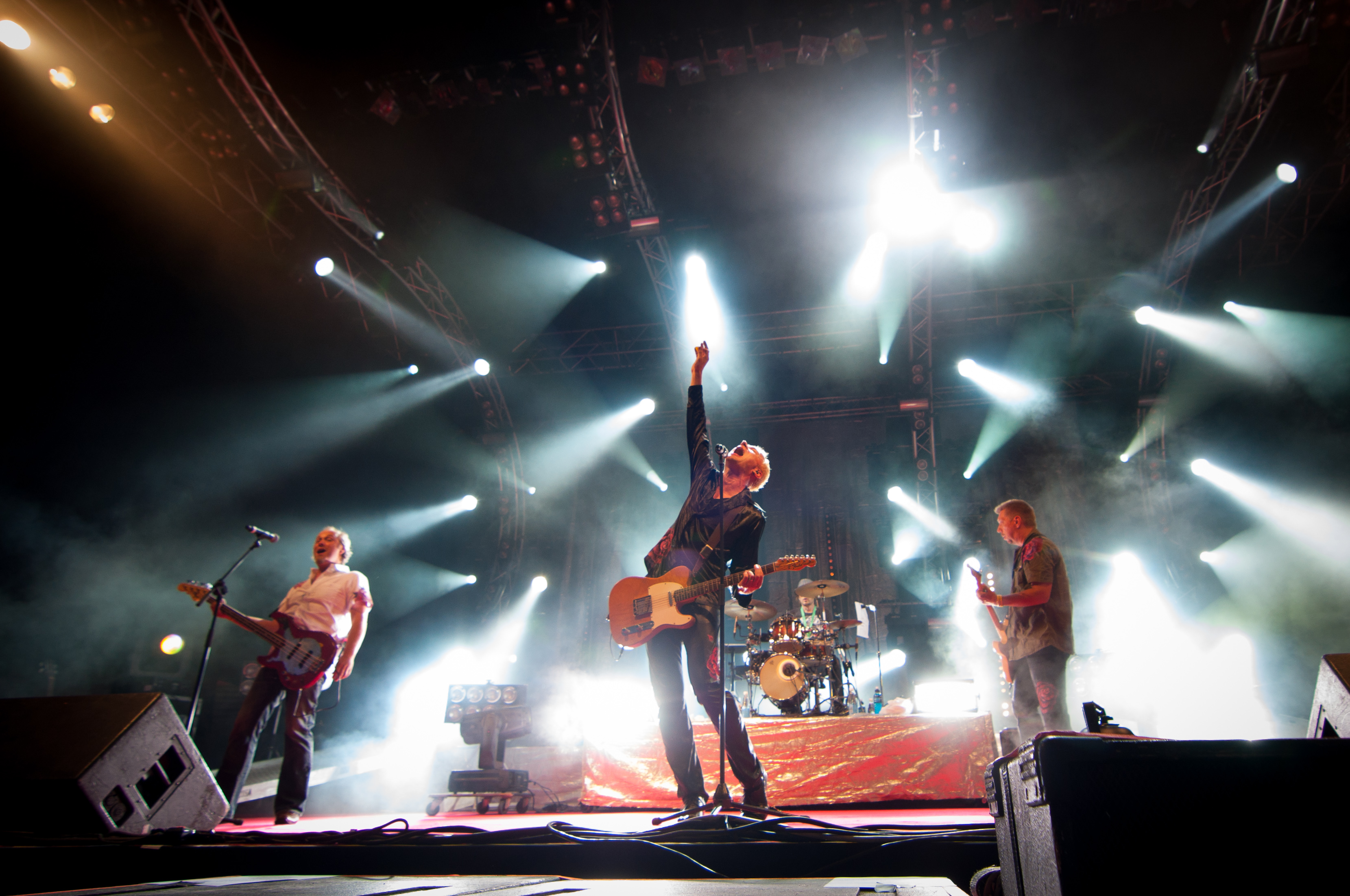 Finnish rock band Neljä Ruusua performing at the 2011 Ilosaarirock Festival in Joensuu, Finland.